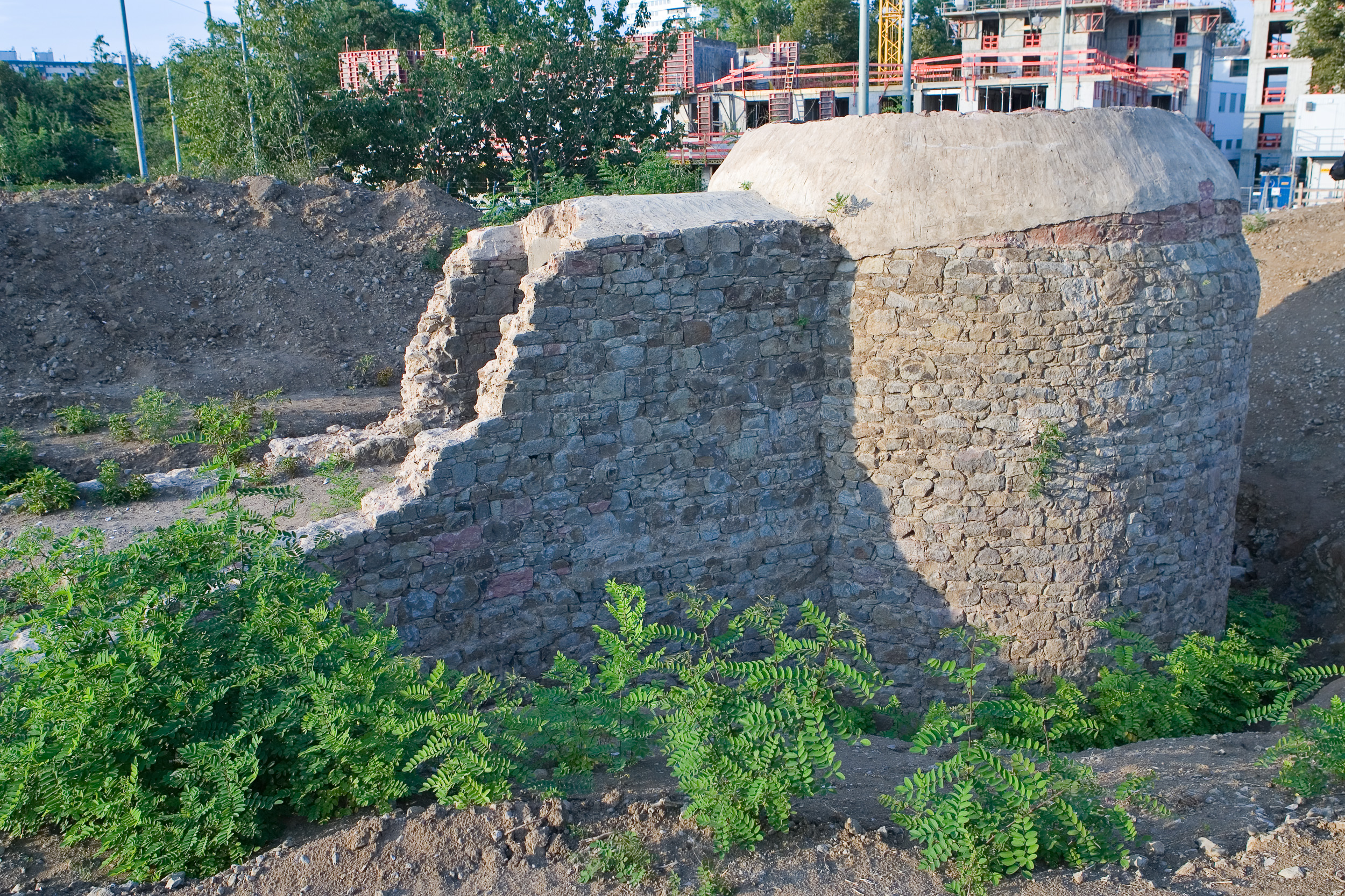 Frankfurt on the Main: Affenstein, Tower, general view of the complex as seen from southwest